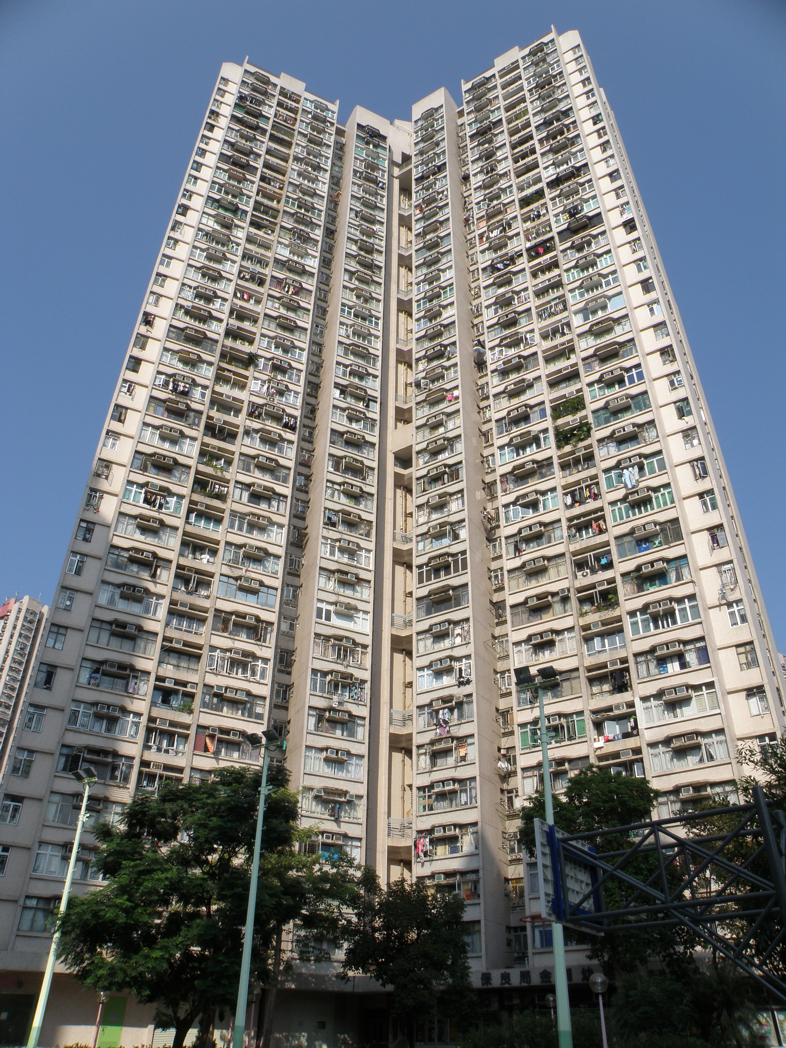 Fung Chuen Court in Diamond Hill, Hong Kong.